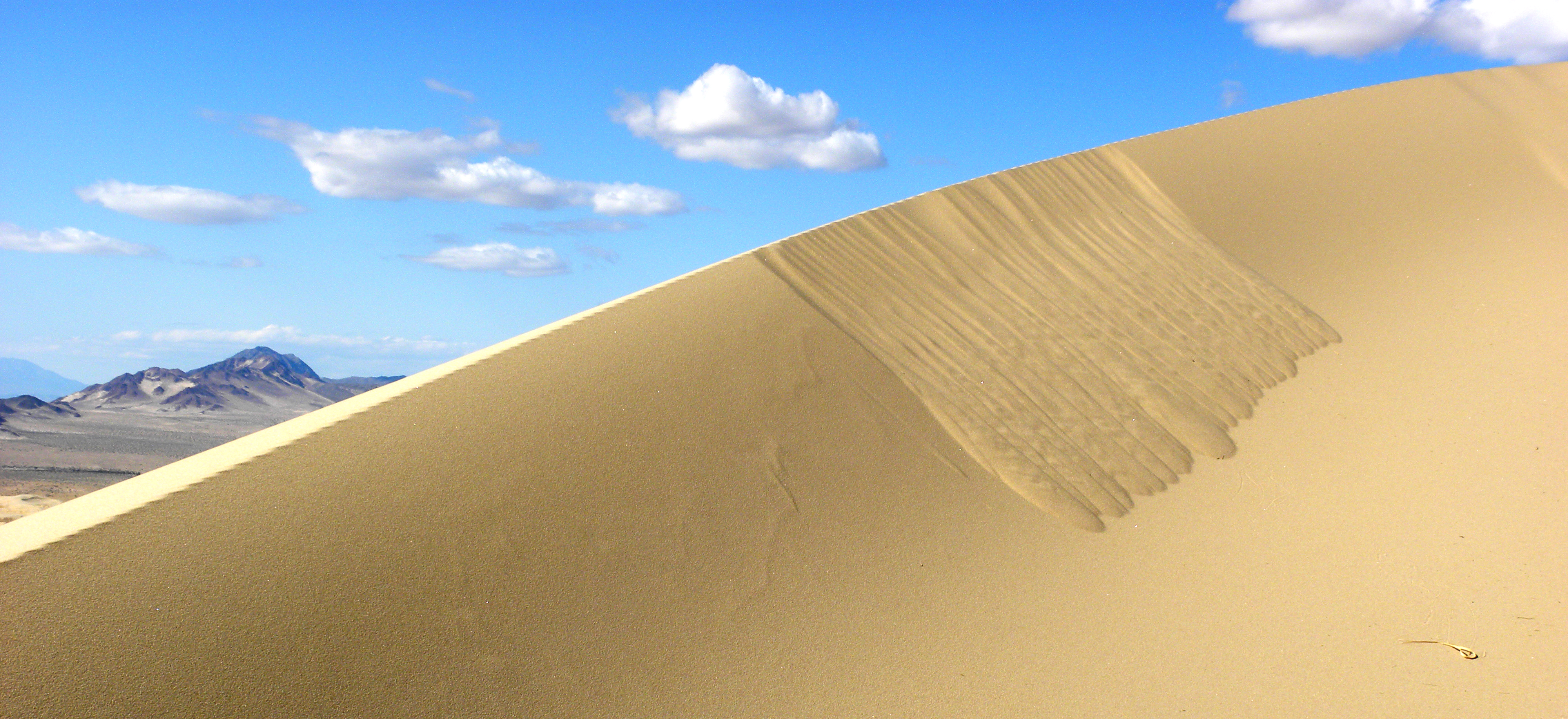 Avalanche deposits on a crest of the Kelso Dunes, the largest field of aeolian sand deposits in the Mojave Desert, located within the Mojave National Preserve in southern California. For more desert dunes info see wikipedia article: The Physics of Blown Sand and Desert Dunes.